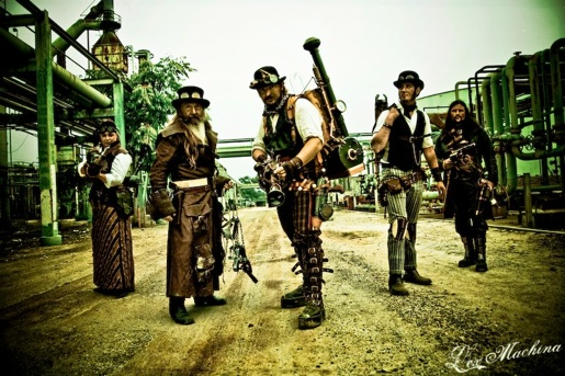 A publicity shot of the League of STEAM